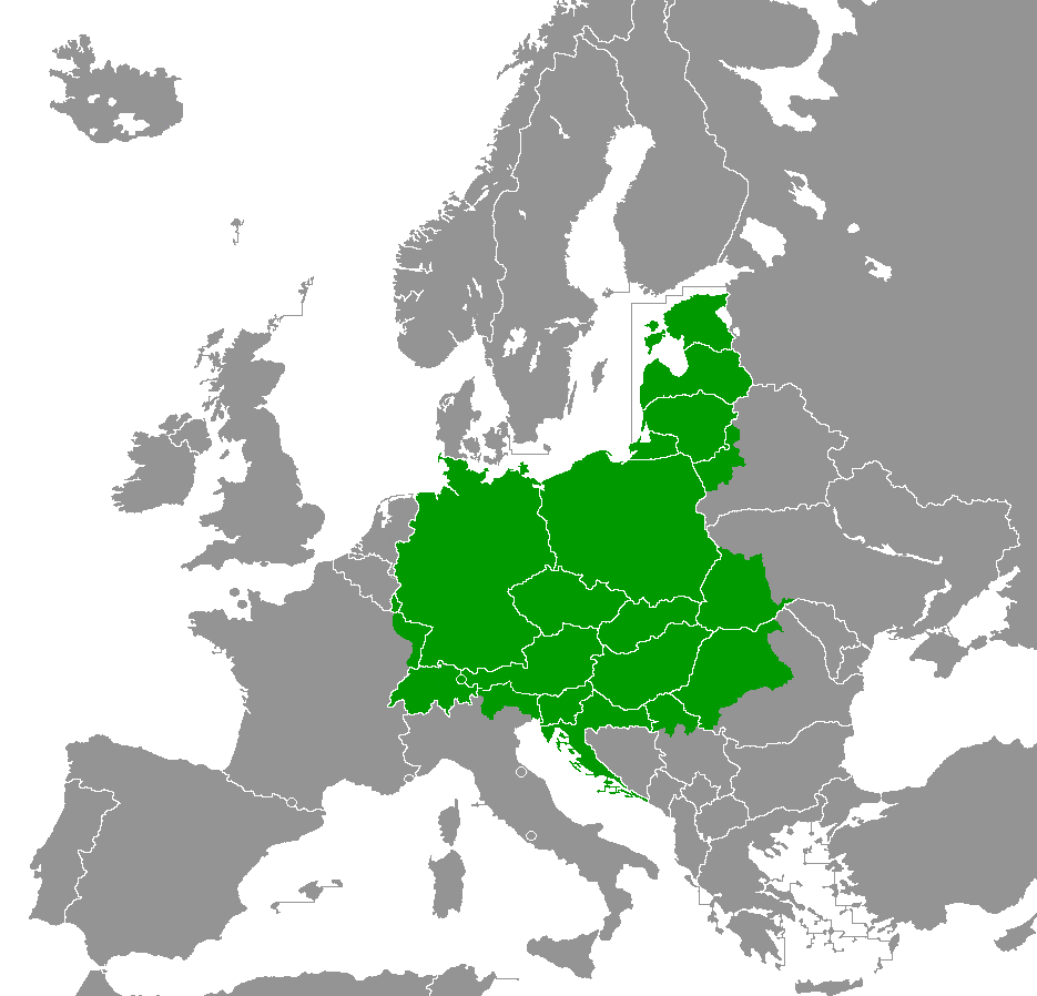 Central Europe according to Pr. Peter Jordan.